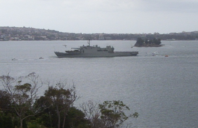 Photograph taken by Benedict Spearritt, H.M.A.S. Kanimbla leaves Port Jackson for the invasion of Iraq in 2003